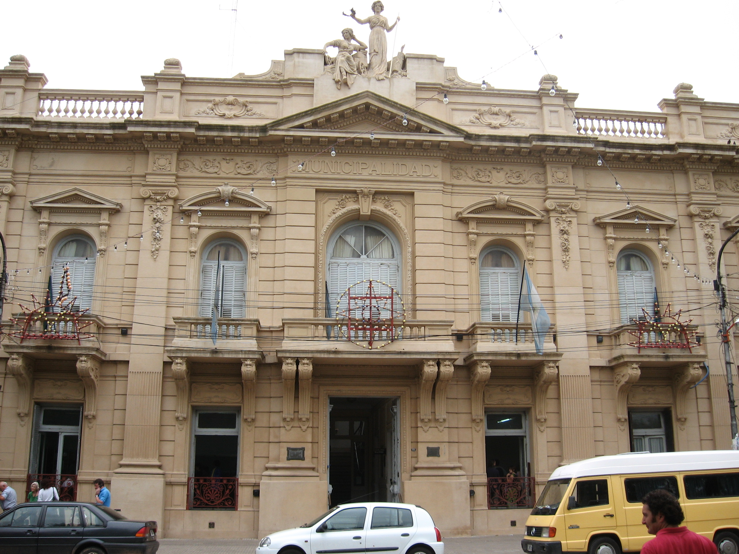 Municipalidad de la ciudad de Mercedes